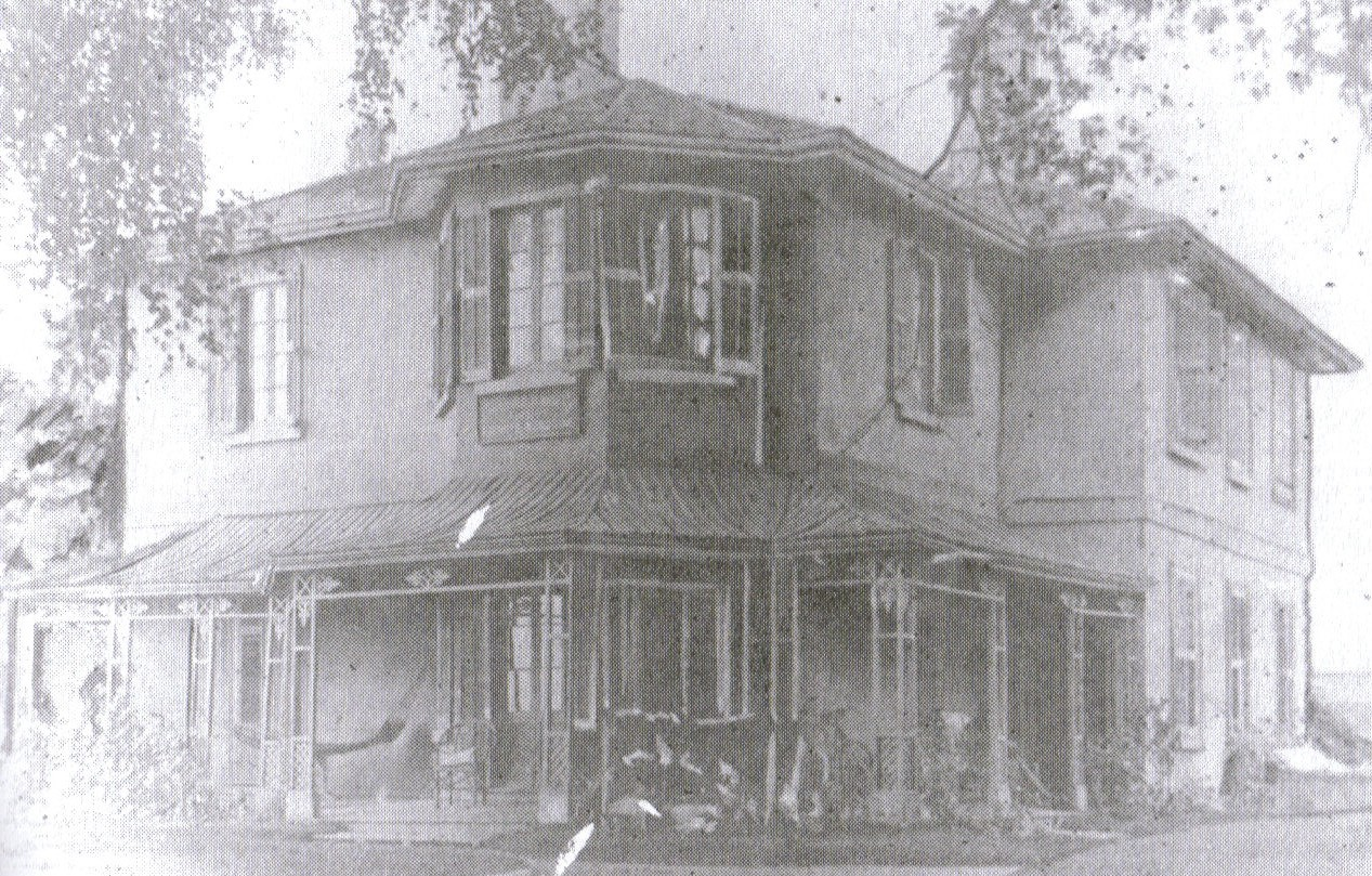 John Howard's Sunnyside (now St. Joseph's Health Centre). The Queensway at Glendale Avenue. Toronto, Canada.